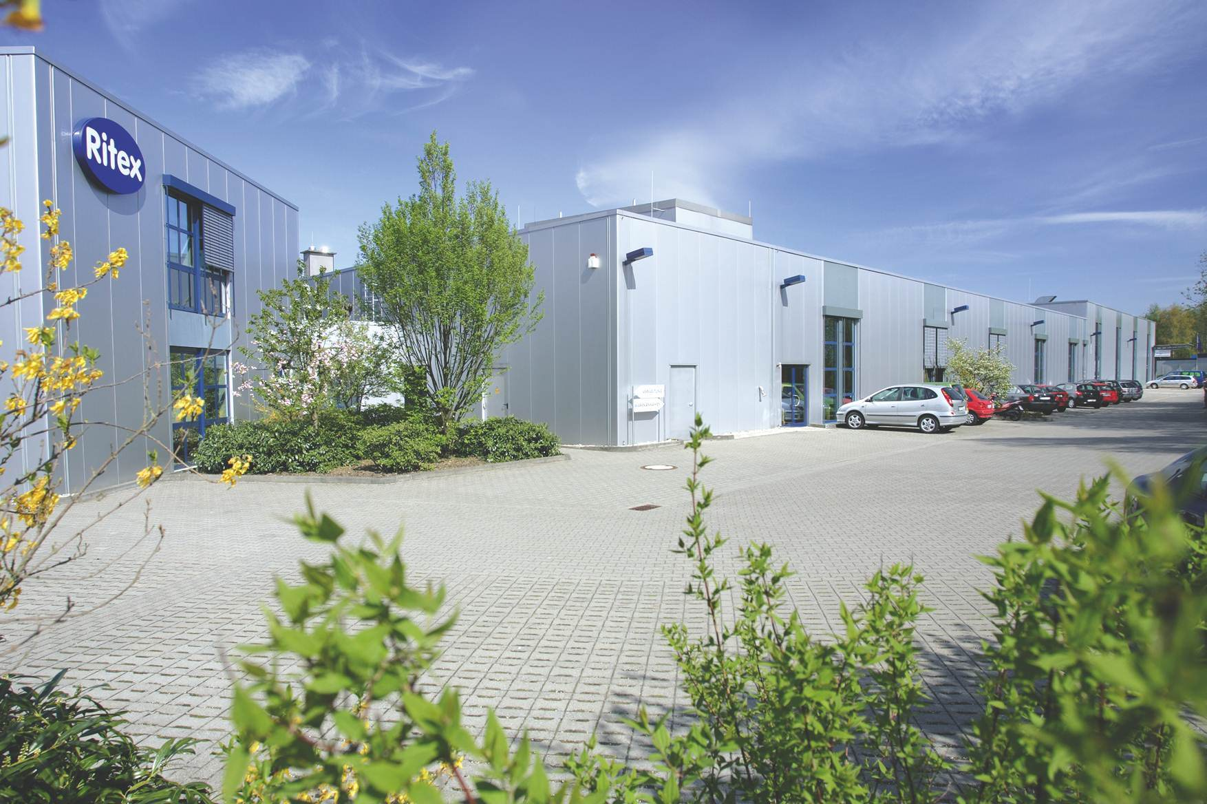 Ritex head office in Bielefeld, Germany.